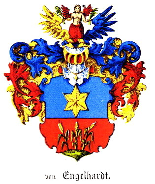 Coat of arms of Engelhardt family